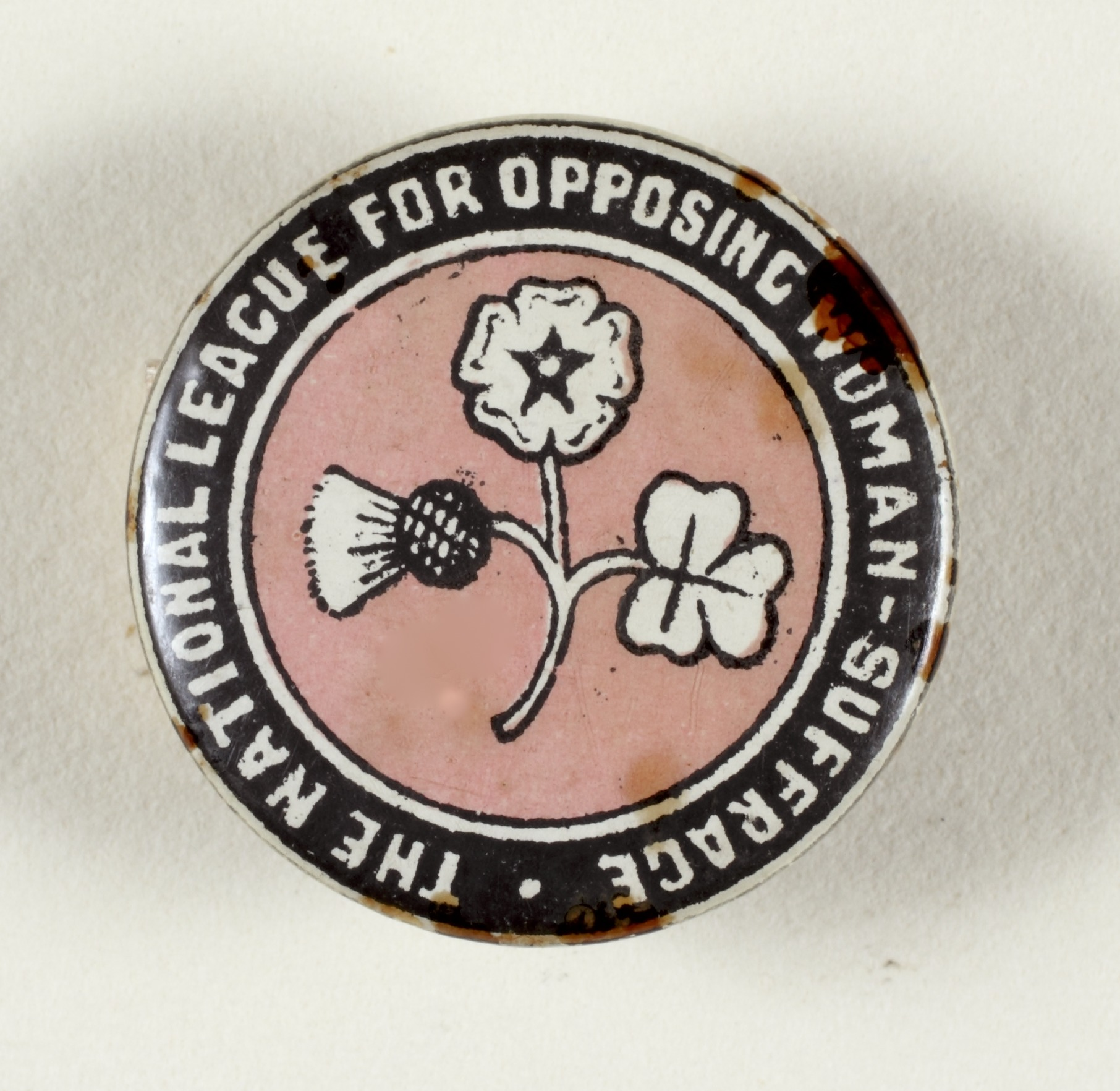 TWL.2004.609 Badge, paper, plastic, metal, round, paper, produced by the National League for Opposing Woman-Suffrage, printed with a black and white image a clover, primrose and thistle, on a pink ground, black border, printed with white inscription: 'The National League for Opposing Woman-Suffrage', paper covered with plastic, over metal base.